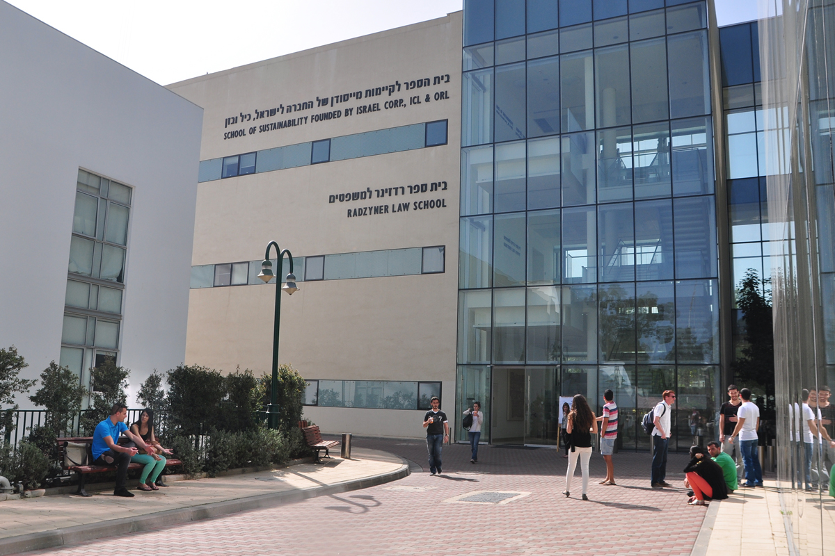 Credit: Kobi Zholtack